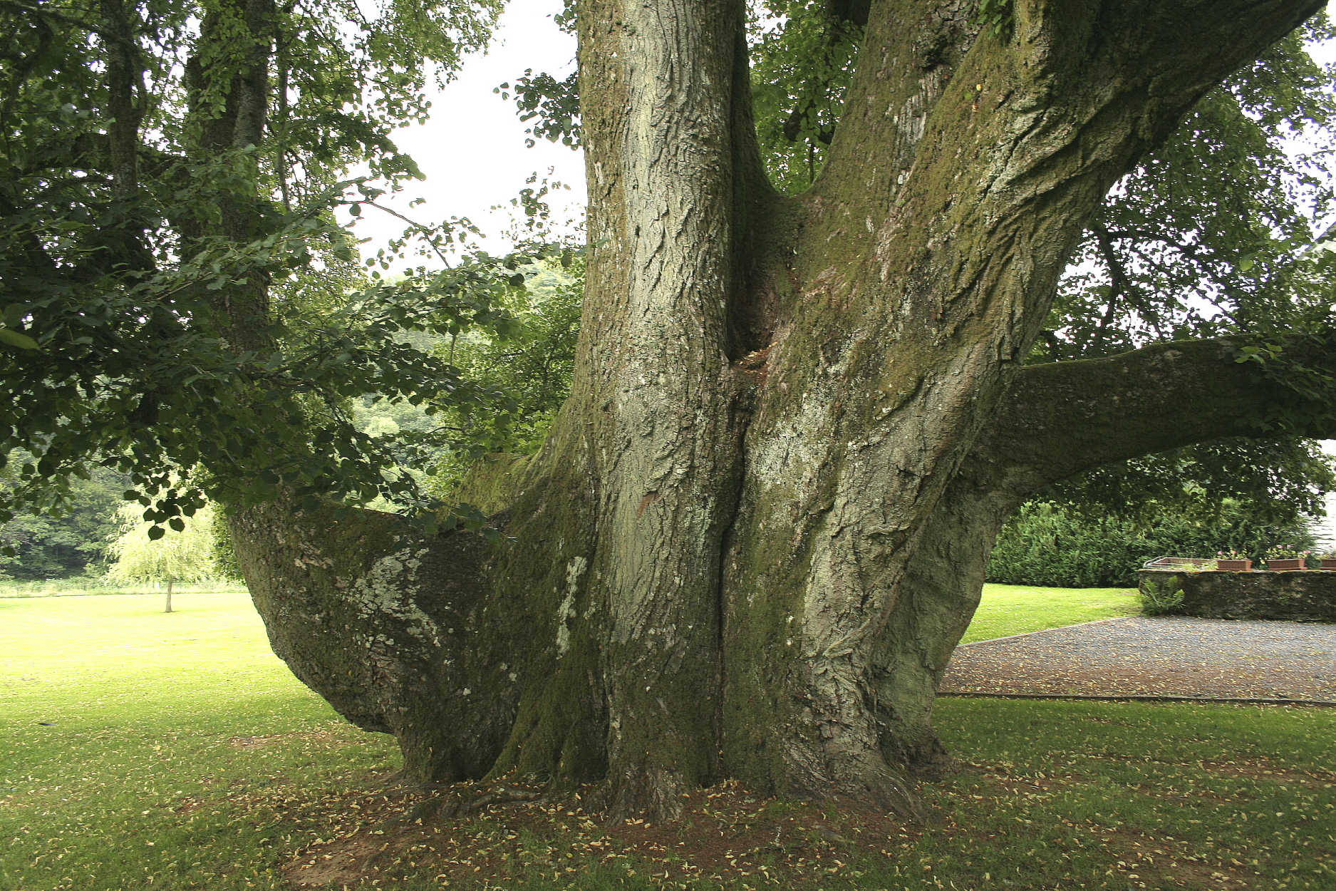 Common Lime